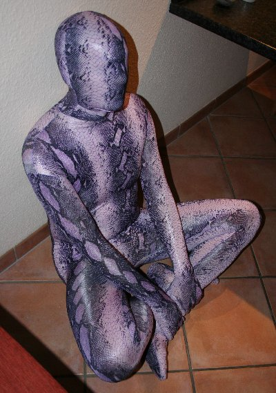 The picture shows a male botton in a snake zentai suit